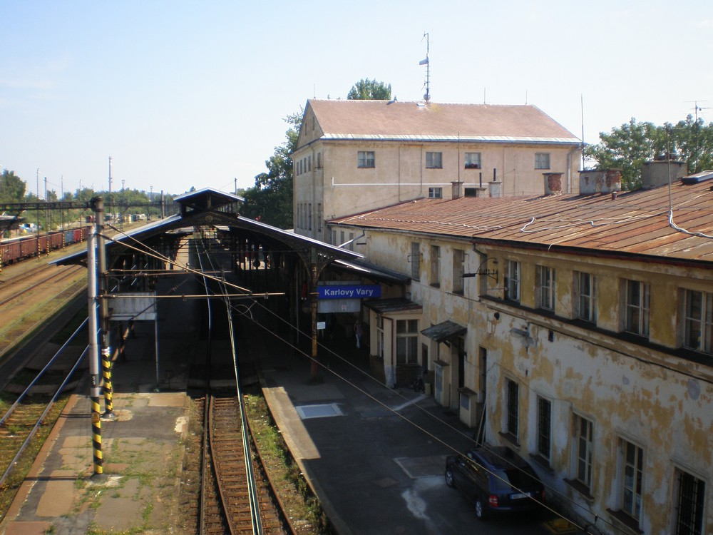 Karlovy Vary, Czech Republic; train station Karlovy Vary